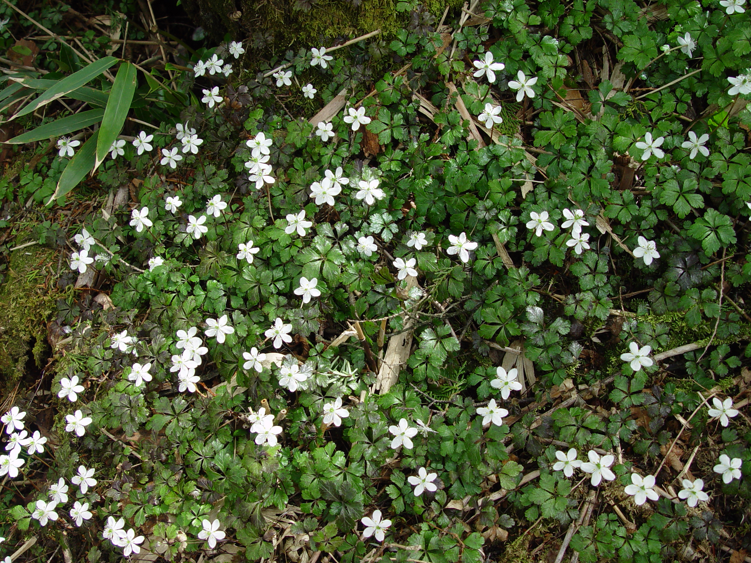 Coptis quinquefolia in Mount Nagiso